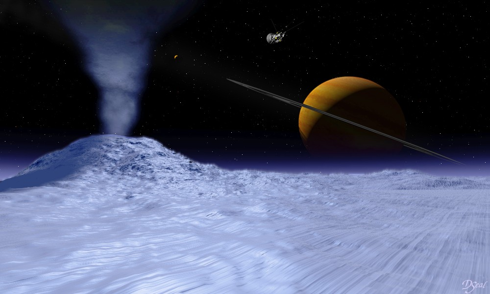 This artist's rendering shows the notable bright surface of icy Enceladus. In the foreground, an ice geyser can be seen projecting a jet of vapor into space. Enceladus is considered by some as the source of the E ring (which can be very faintly seen along Saturn's equatorial plane); icy geysers may be responsible for sustaining the E ring's supply of micrometer-sized particles.